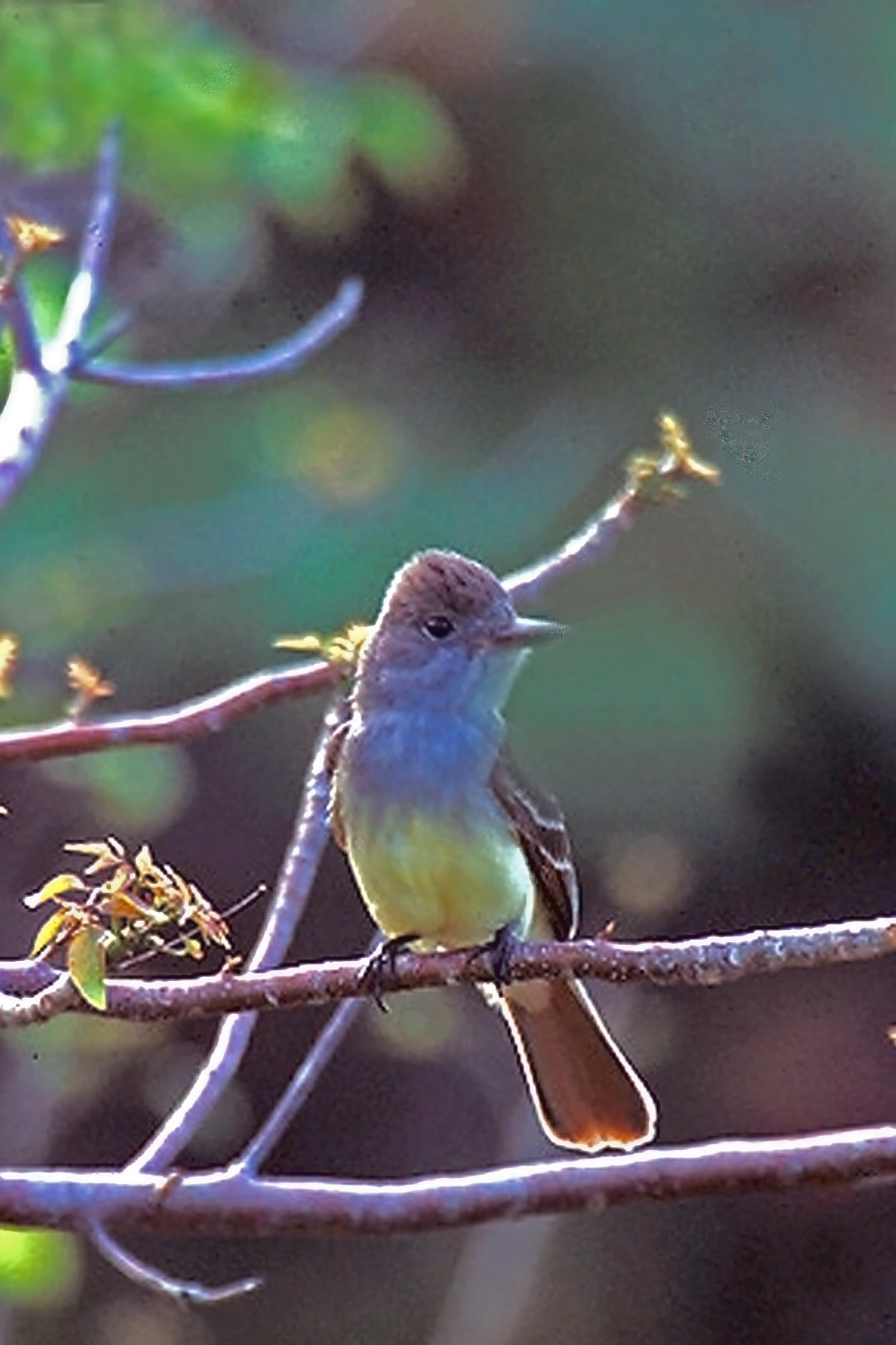 Caught this image of the bird during Sping migration on Sanibel Island, Florida.